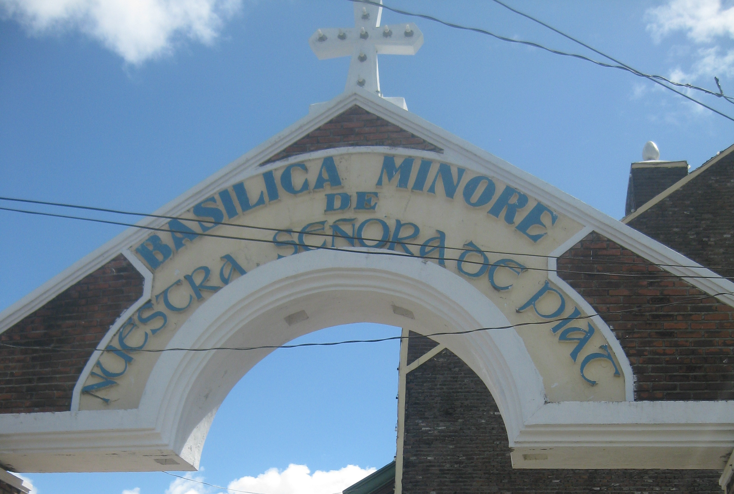 This is the Entrance Arch of the Basilica of Our Lady of Piat in Cagayan. It states the Soanish phrase, Basilica Minore de Nuestra Senora de Piat.